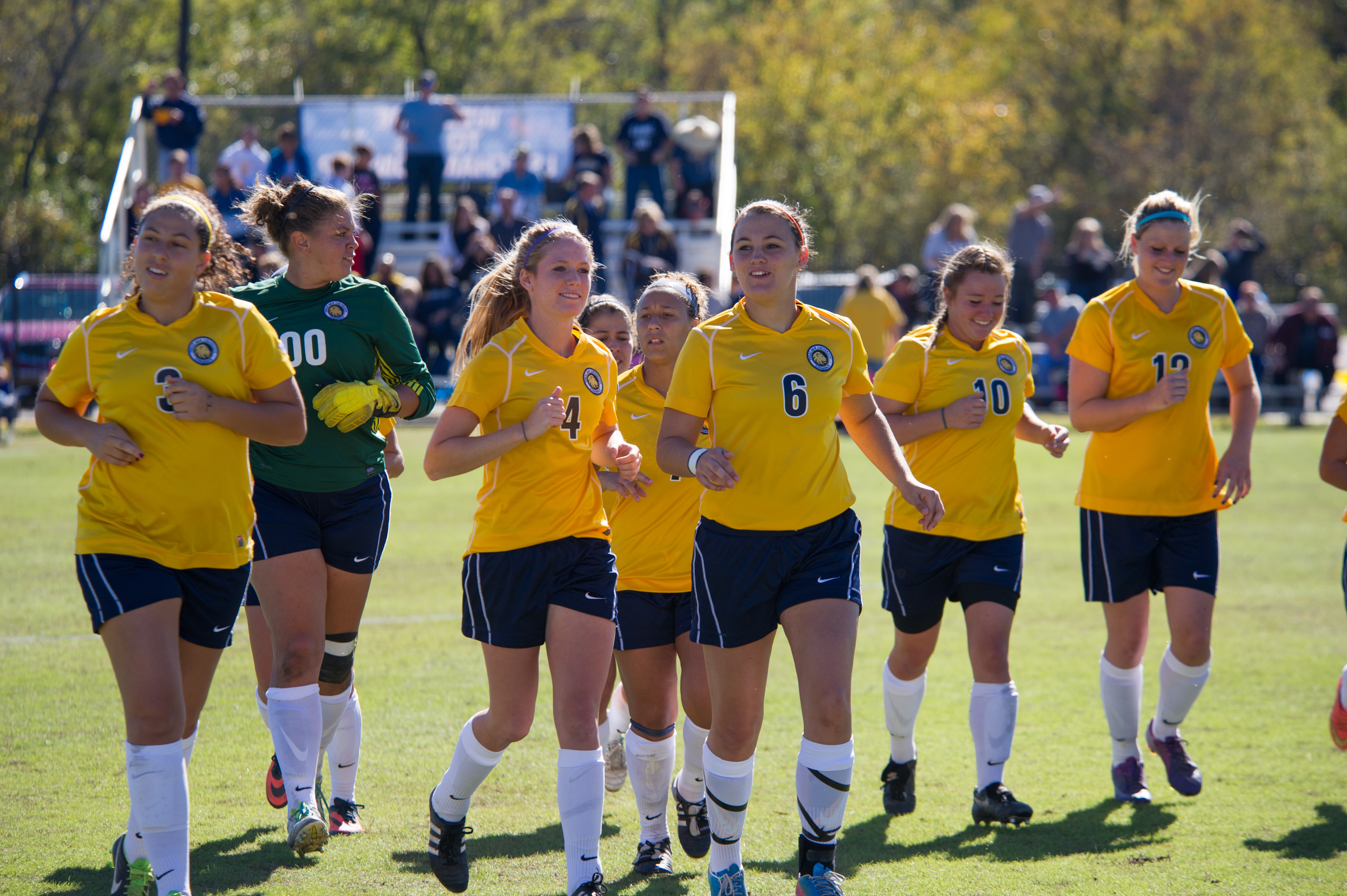 Athletics-Soccer vs ASU-5888.jpg 2014–15 Texas A&M–Commerce Lions women's soccer team